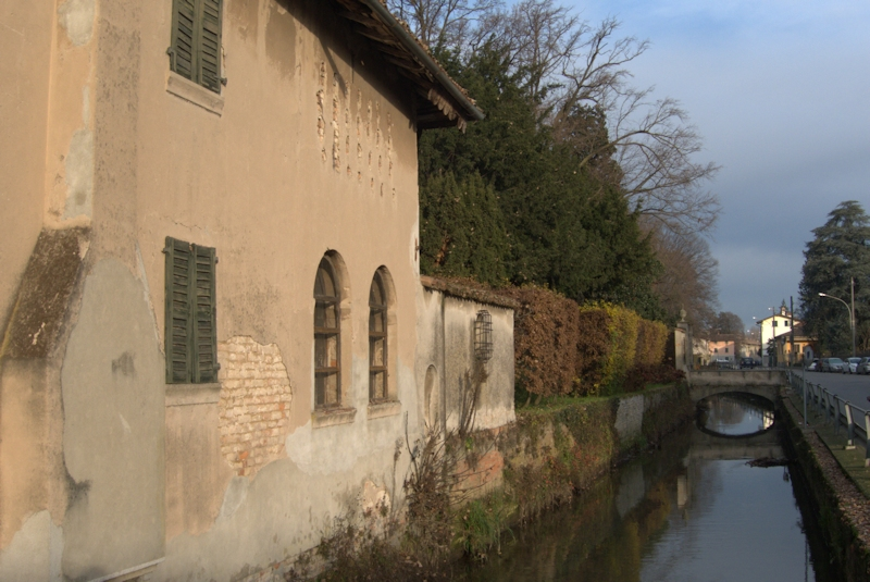 The Acqua Rossa canal near Ombriano (province of Cremona)